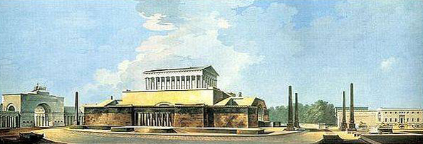 Friedrich Gilly's design for a monument to Frederick the Great.